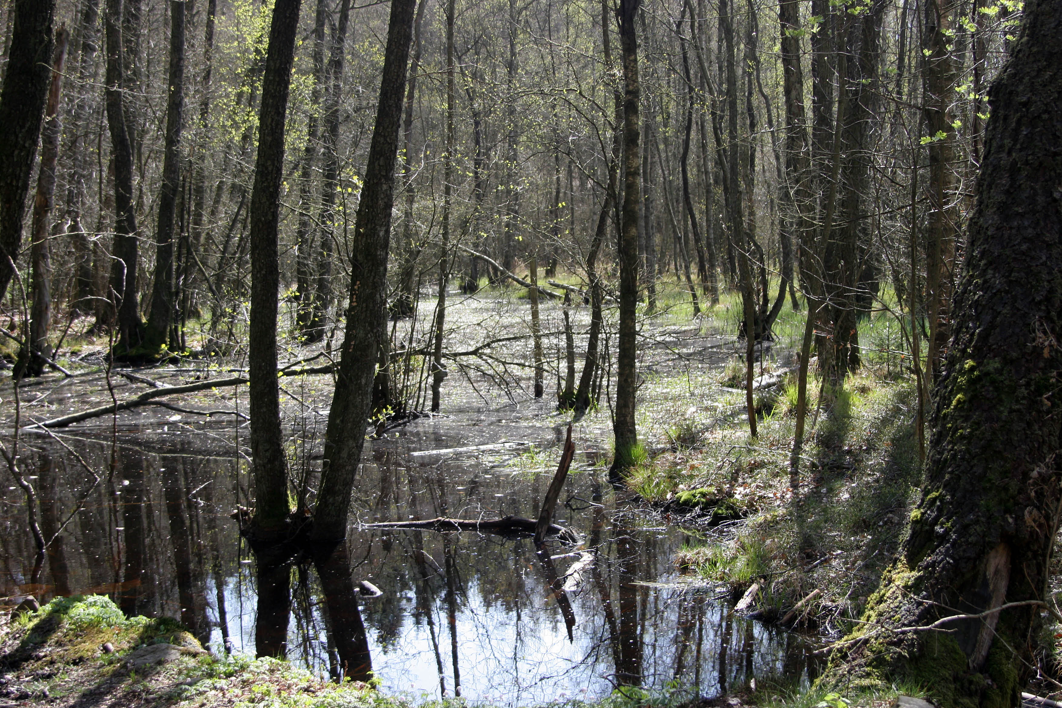 Wetlands in Klåveröd recreational area in Scania, Sweden.